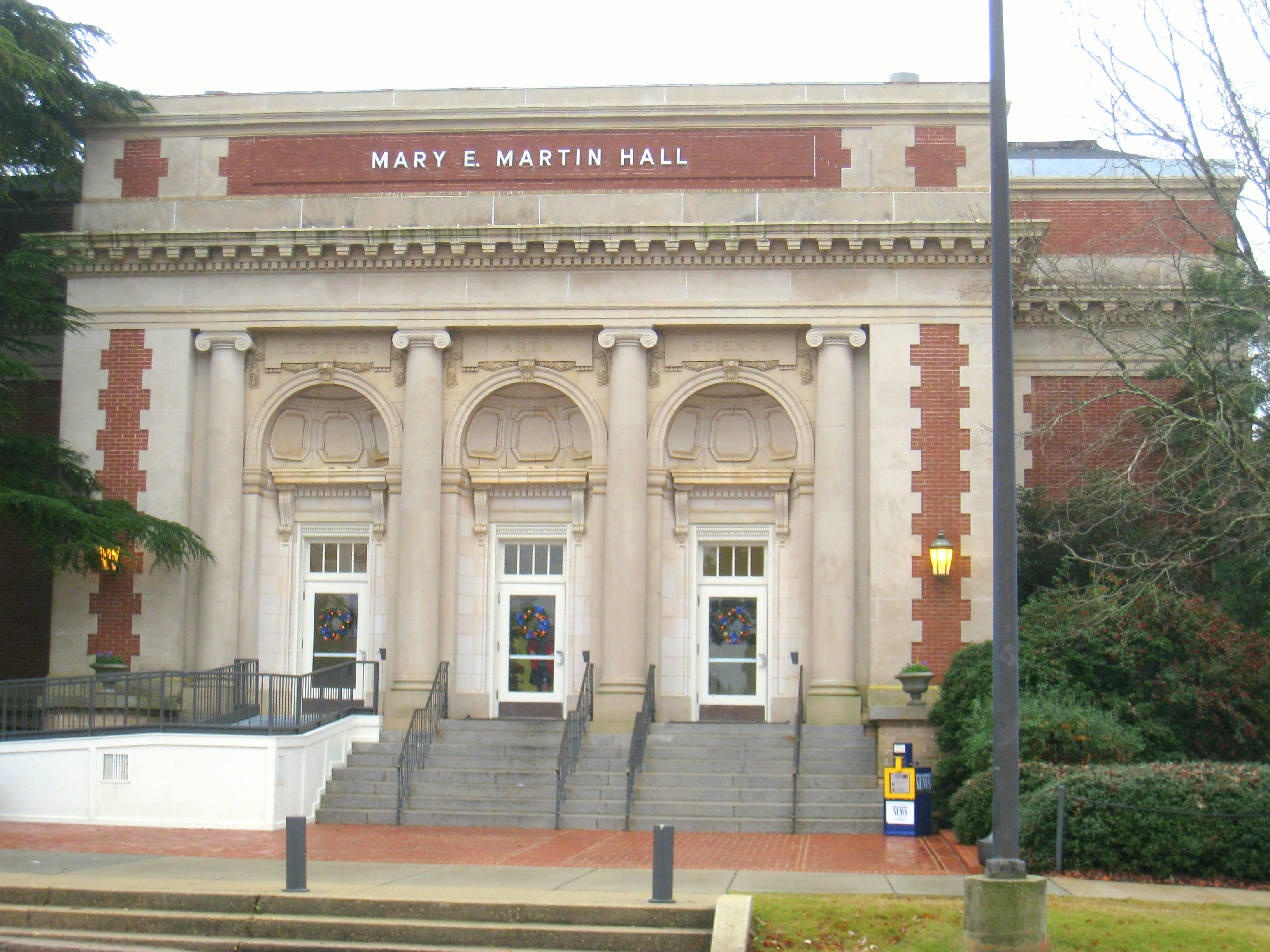 Mary E. Martin Hall, Auburn University, Auburn, Alabama, USA.